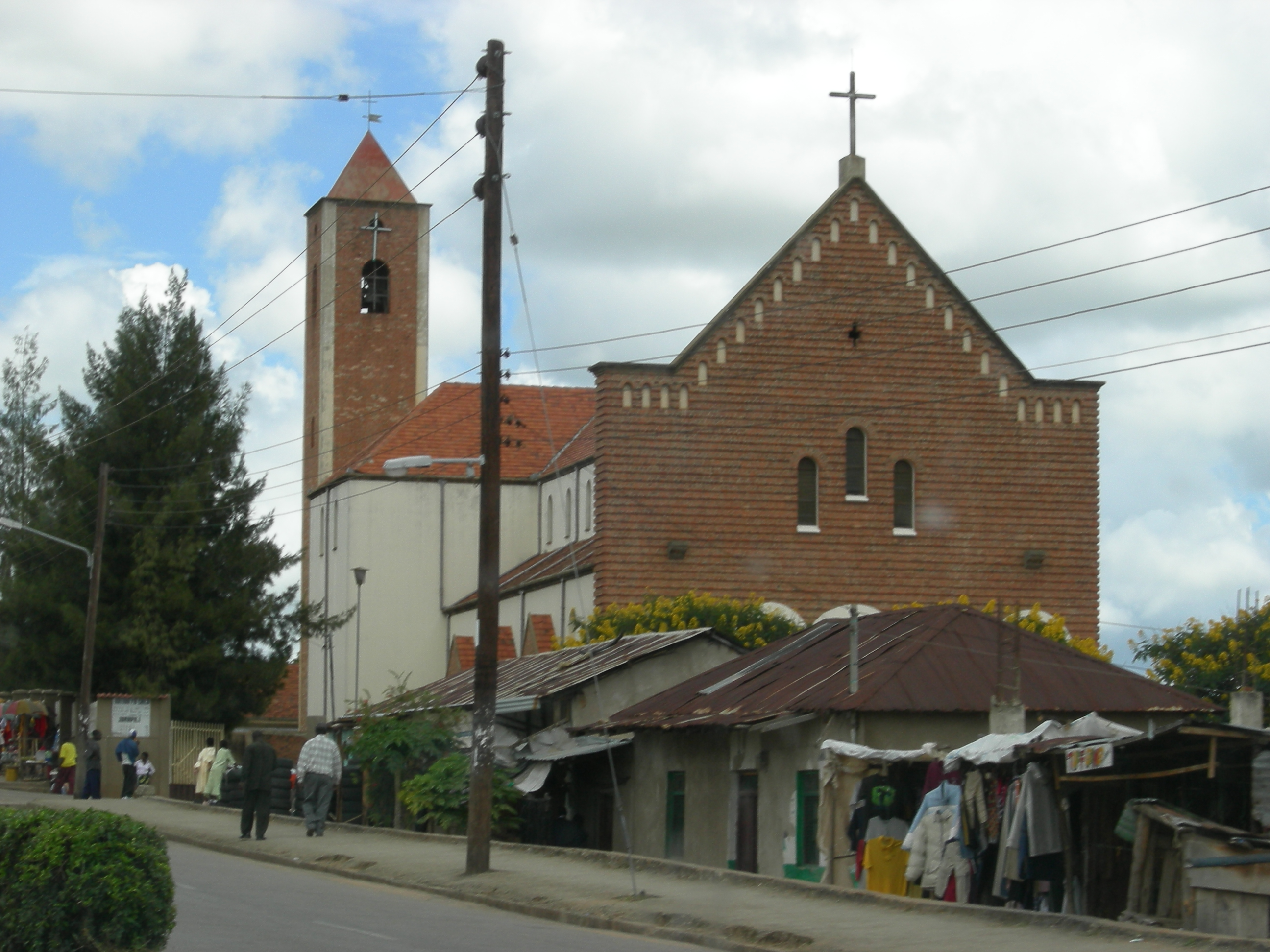 Chirch in Iringa city, Tanzania